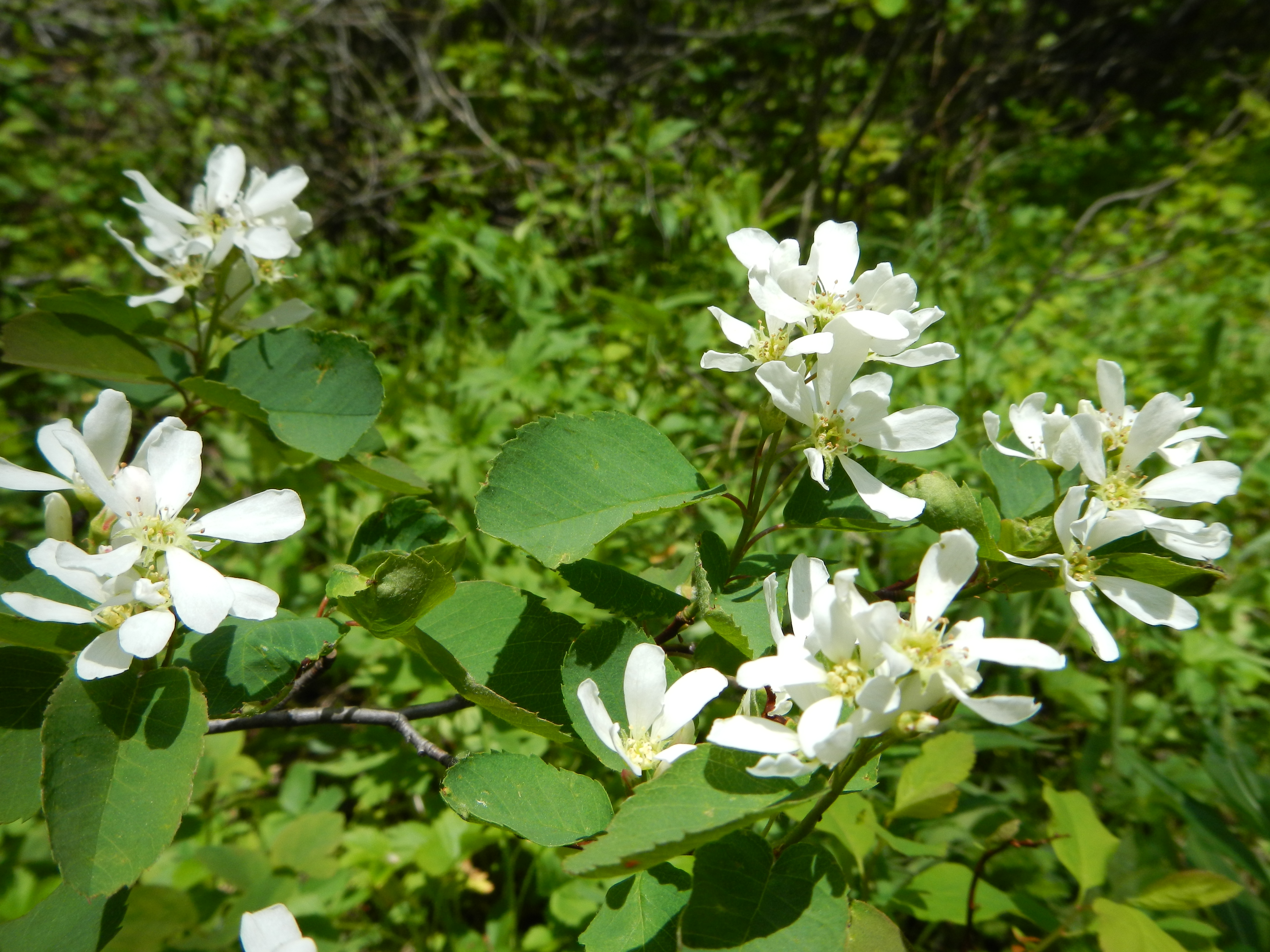 Although generally flowering by May and early June, serviceberry is found blooming in the mountains during the middle of June.